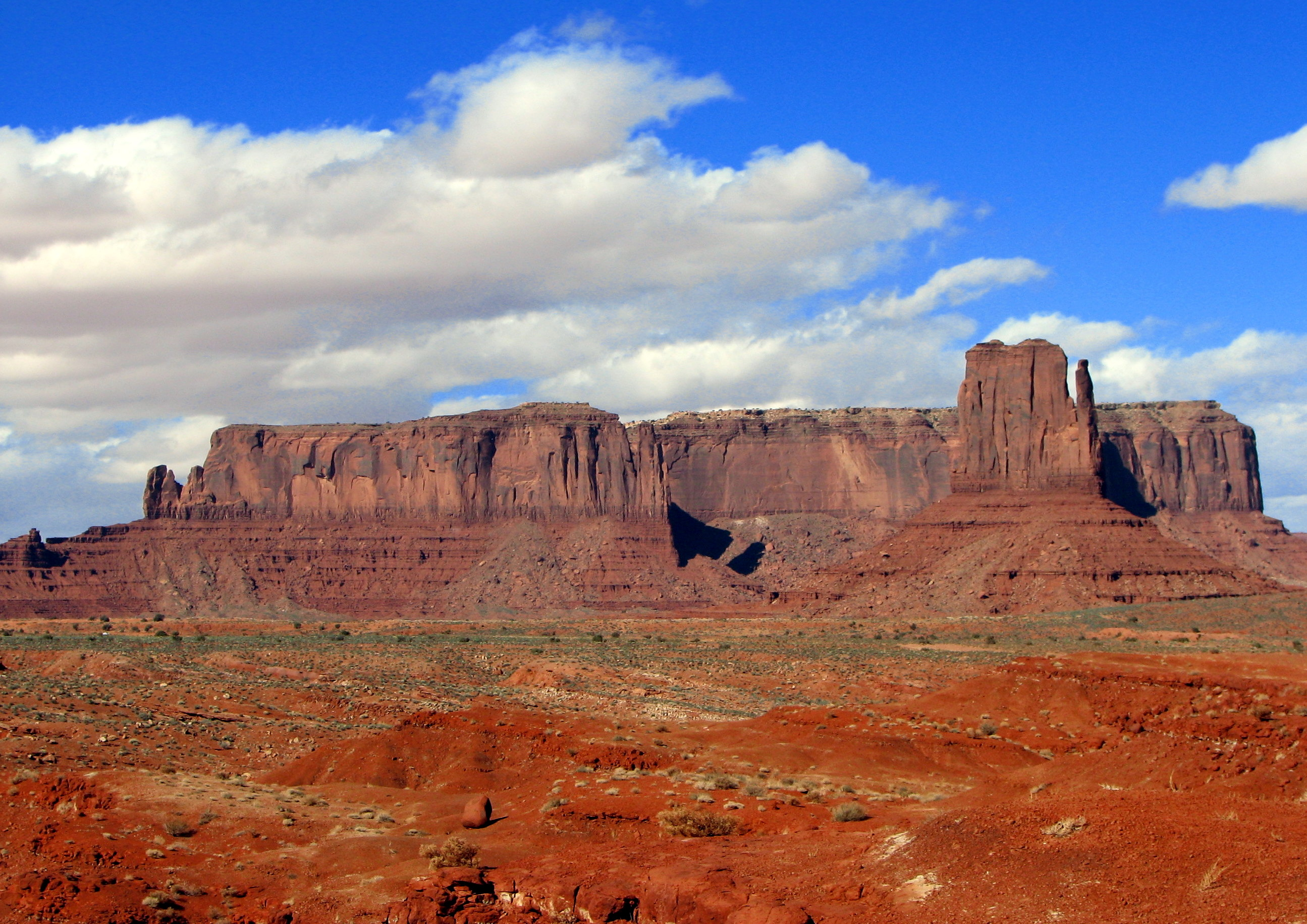 Monument Valley: view from John Ford's Point, located in northern Arizona and southern Utah, USA.The 5 expressed geologic units: 5--(resistant caprock)-Shinarump Conglomerate4--(horizontal, layered)-Moenkopi Formation3--(cliffs)-De Chelly Sandstone-(also in Canyon De Chelly National Monument)2--(skirts)-Organ Rock Formation- (of Utah, & northern Arizona)1--(local regions of Mon. Vall.)-Cedar Mesa Sandstone)